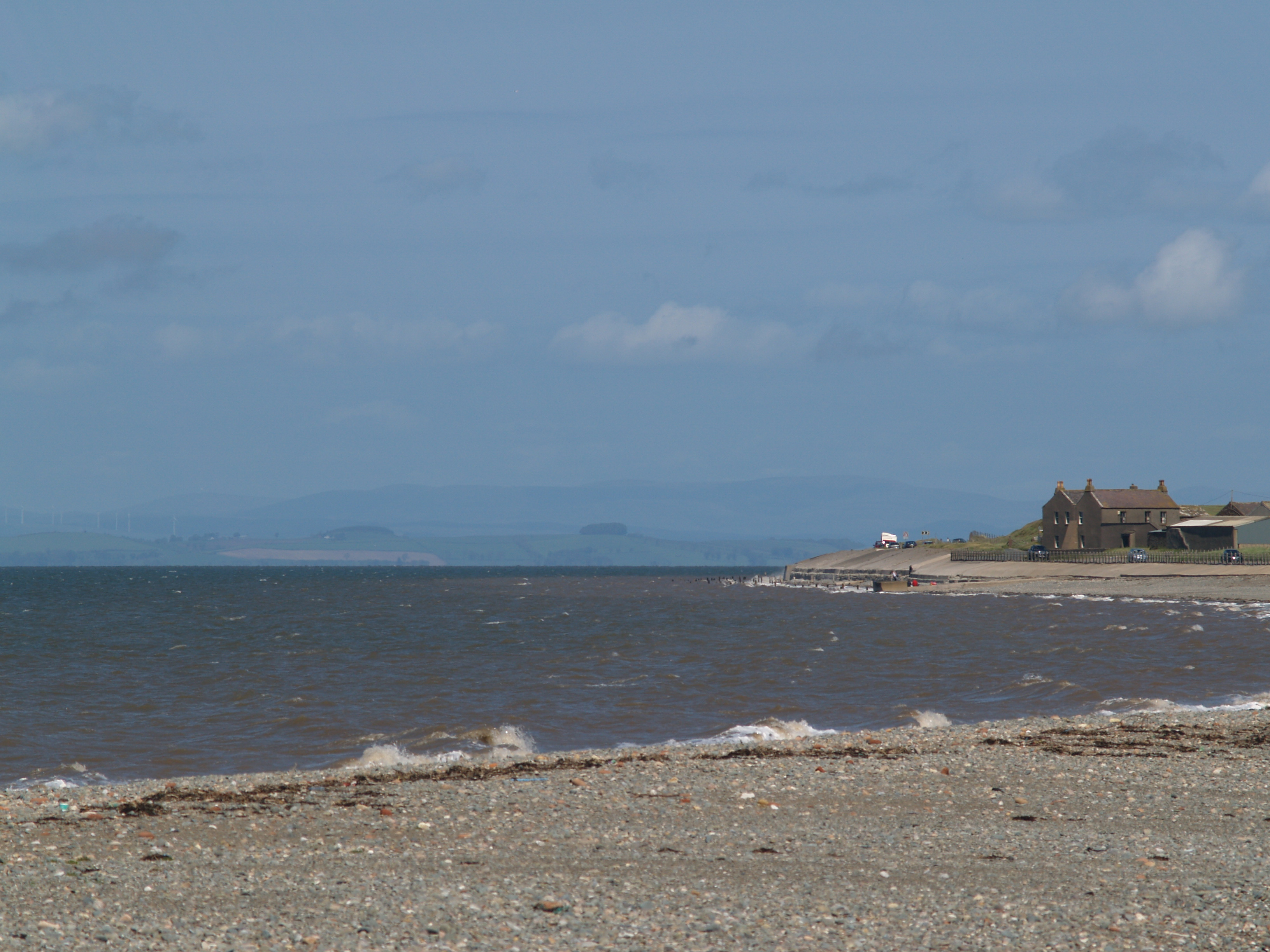 Dubmill and Seacroft Farm as seen from Allonby.